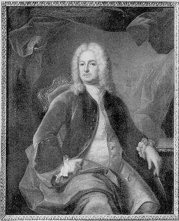 Magnus Palmqvist